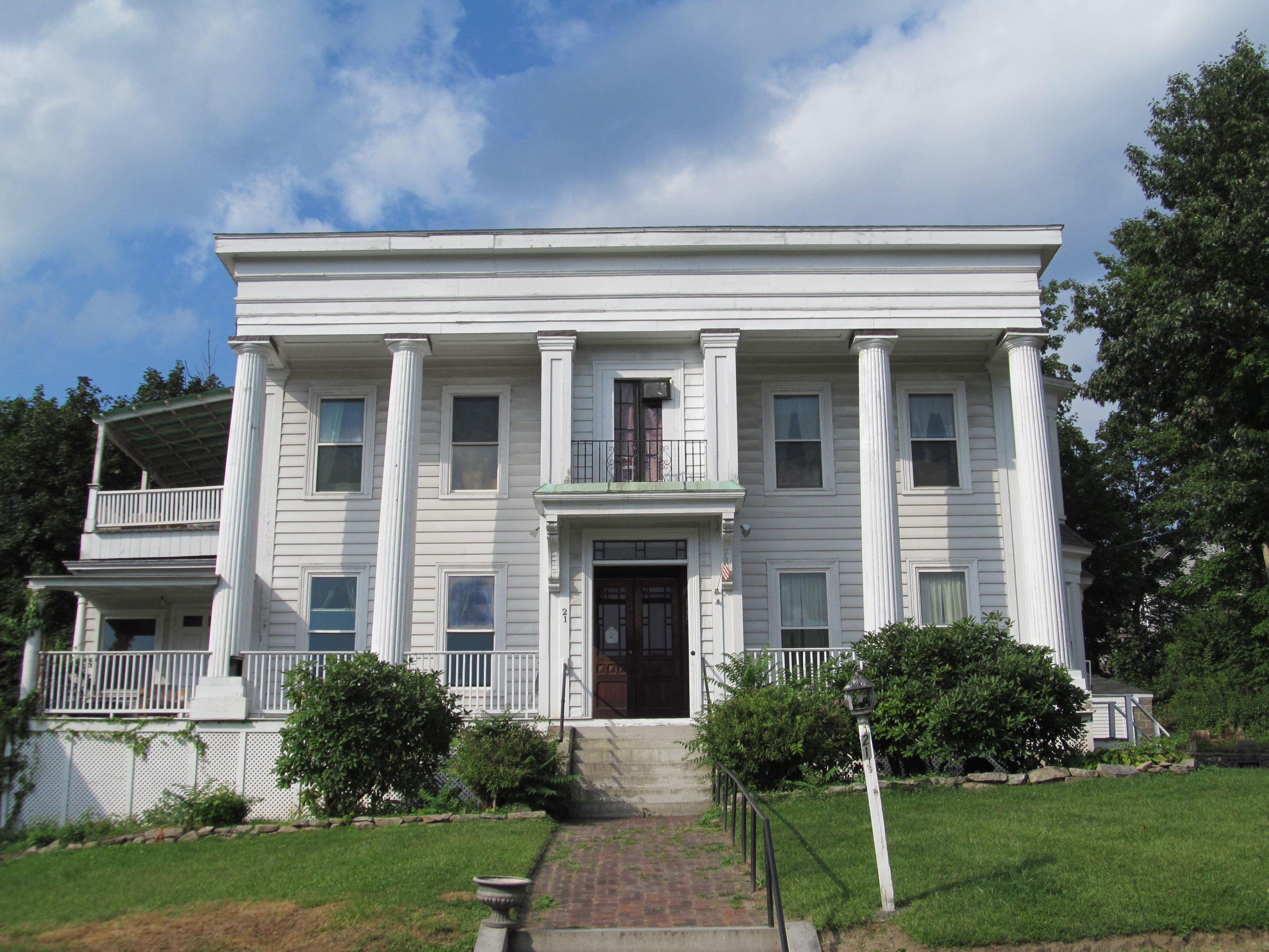 Draper Ruggles House, Worcester Massachusetts - MACRIS Listing